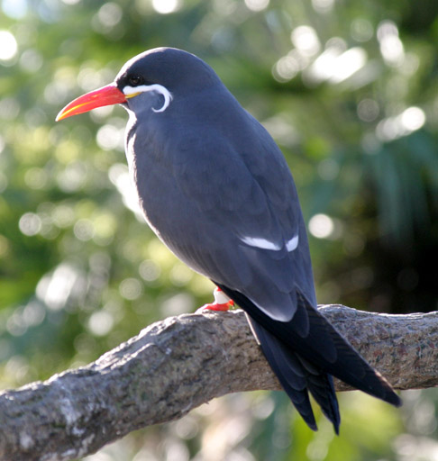 Inca Tern, Larosterna inca, captive bird. Location: Jacksonville Zoo, Jacksonville, Florida, United States